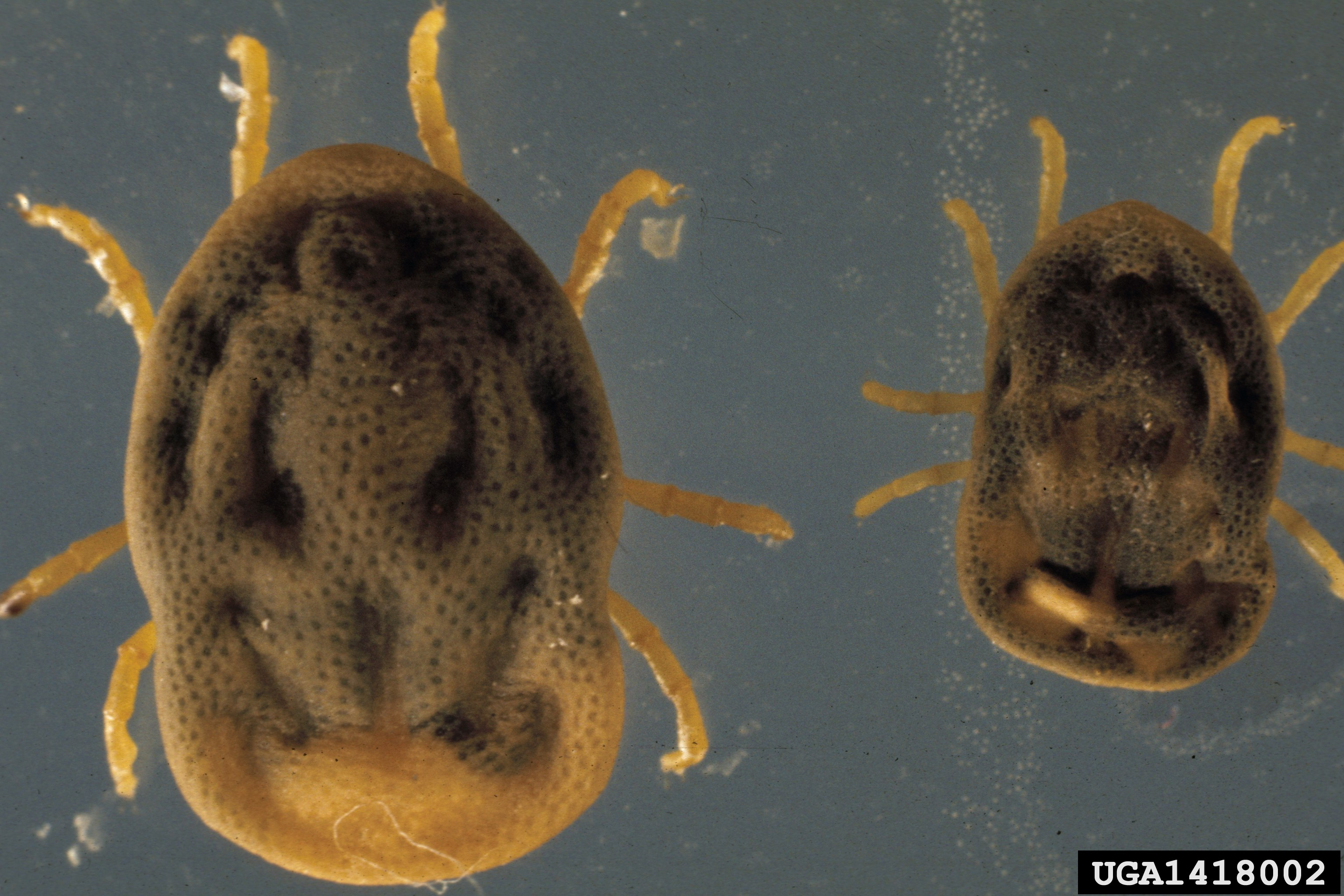 Otobius megnini (Acari:Argasidae)